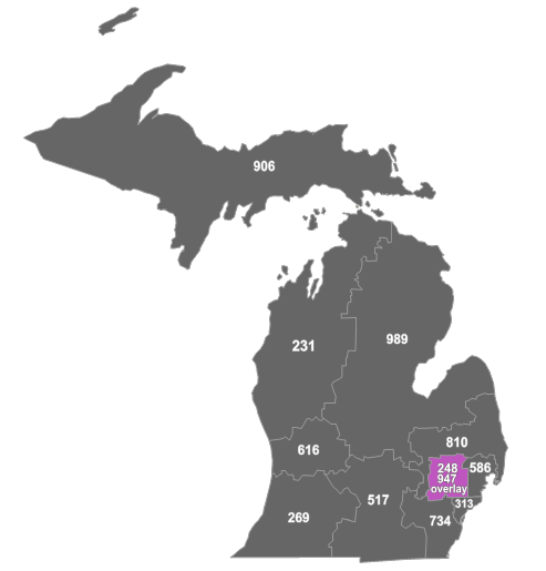 Area code map of Michigan highlighting the region covered by area code 248 and its overlay area code 947.